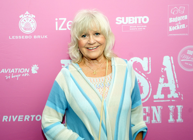 Christina Scholin